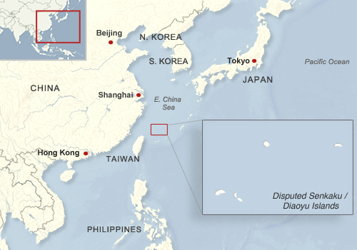 Senkaku/Diaoyu Islands